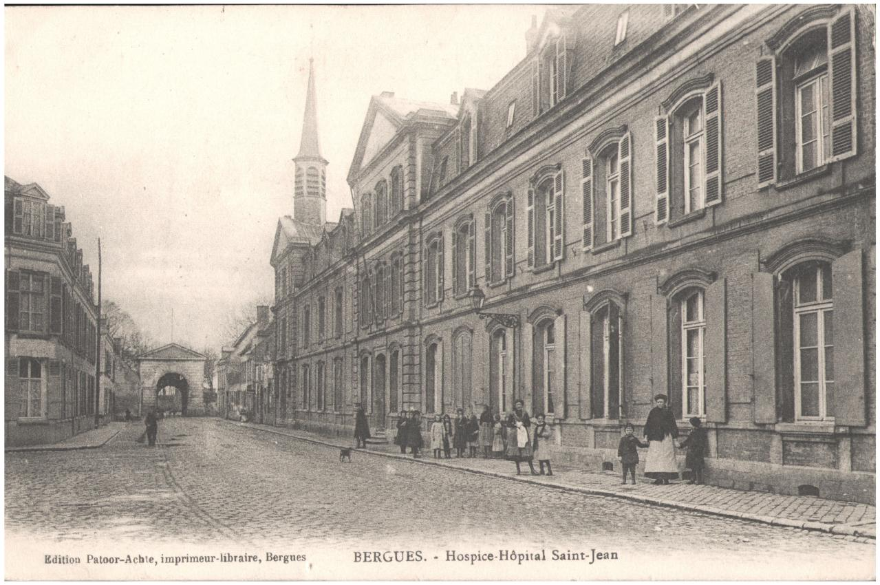 For more details of the story behind this album